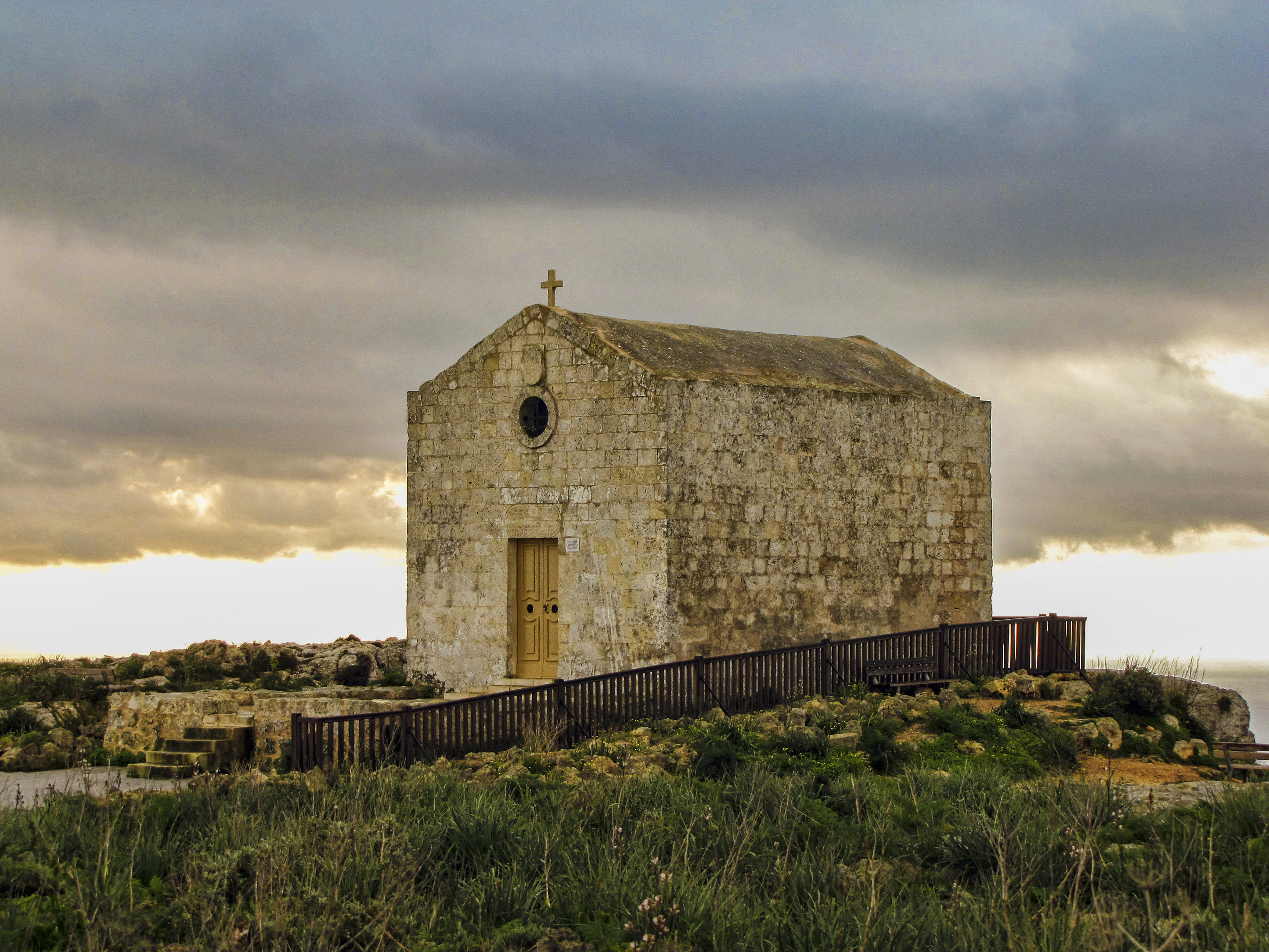 This media is about Maltese cultural property with inventory number 02308.